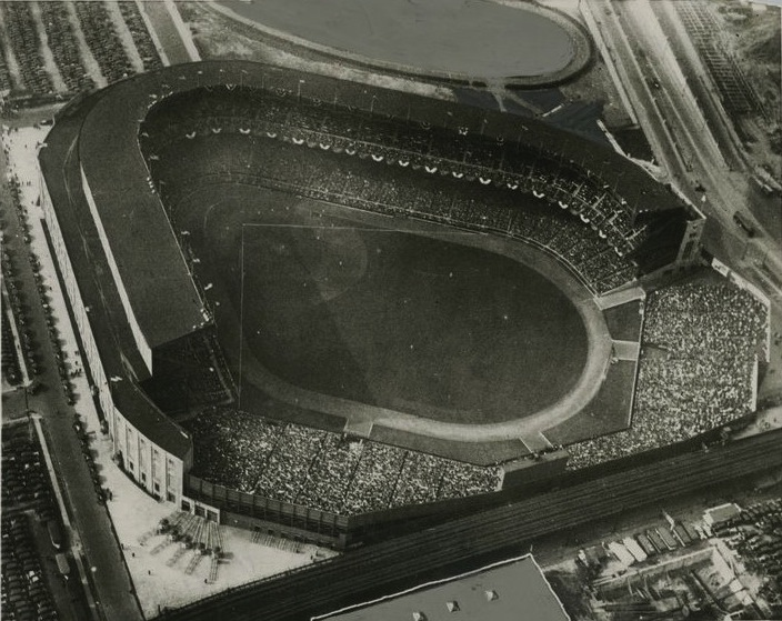 Aerial view of Yankee Stadium, New York. Image courtesy of the New York Public Library , "The Pageant of America" Collection / v.15 - Annals of American sport / (Published photographs)